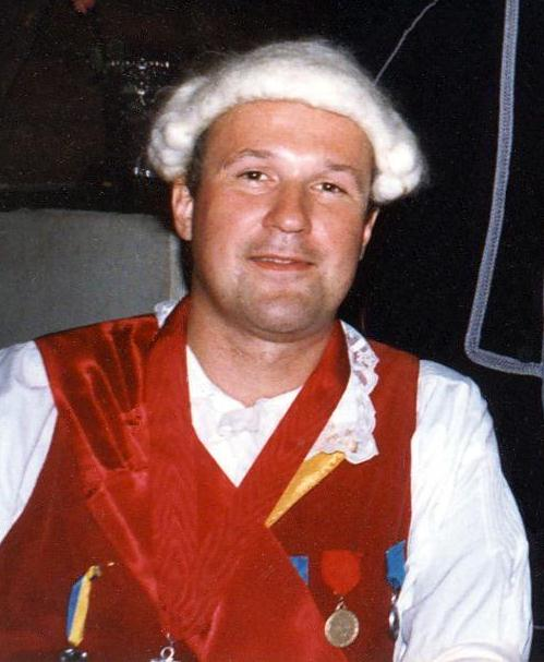 Swedish journalist & minstrel Martin Stugart, as released by image creator Lars Jacob ProdPlace: Bellmanshuset, Urvädersgränd 3, Stockholm, Sweden